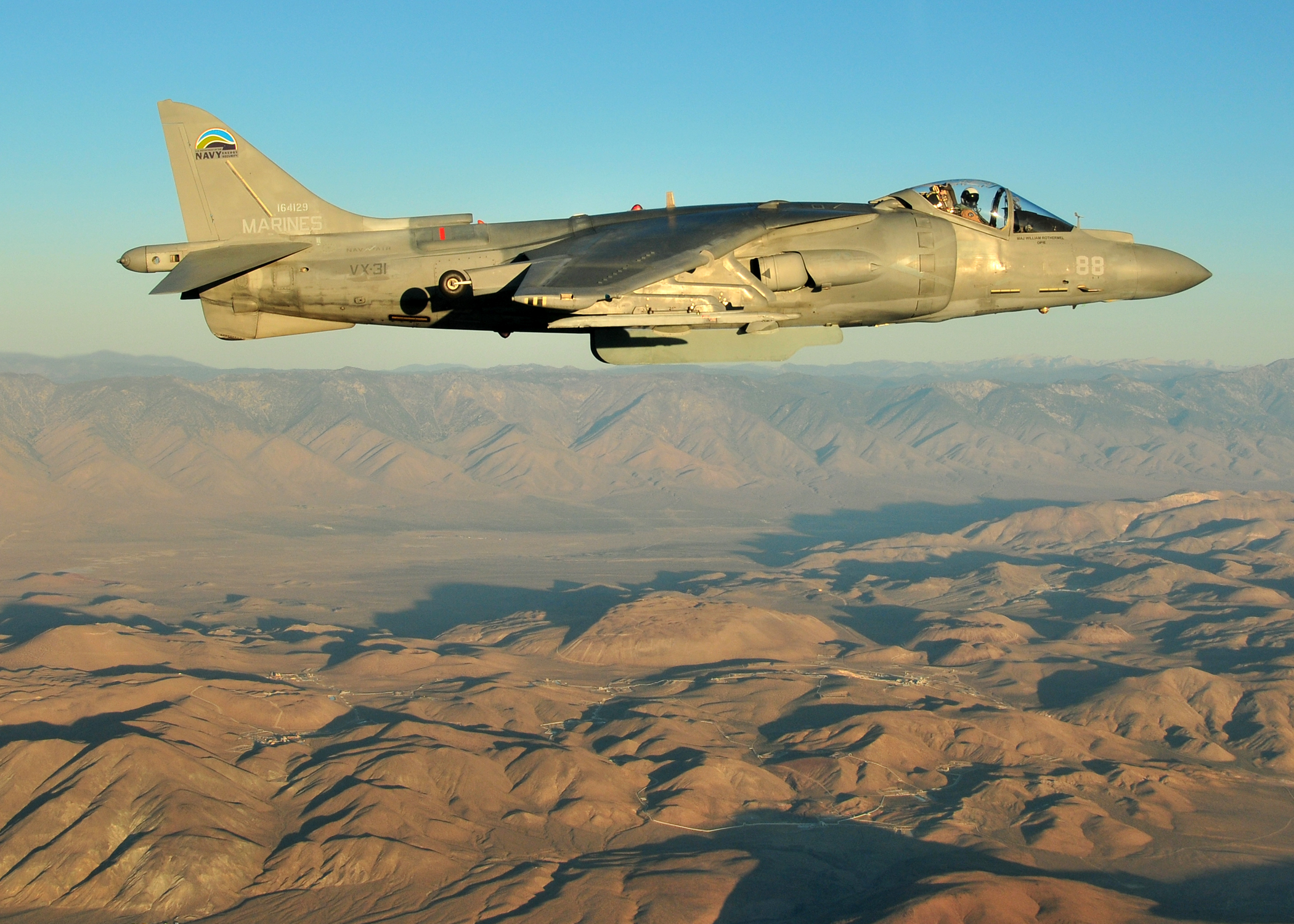 CHINA LAKE, Calif. (Sept. 21, 2011) An AV-8B Harrier assigned to Air Test and Evaluation Squadron (VX) 31 conducts the first test flight of a mix of 50-50 jet fuel and biofuel. The test was conducted over Naval Air Warfare Center Weapons Division, China Lake. (U.S. Navy photo/Released)